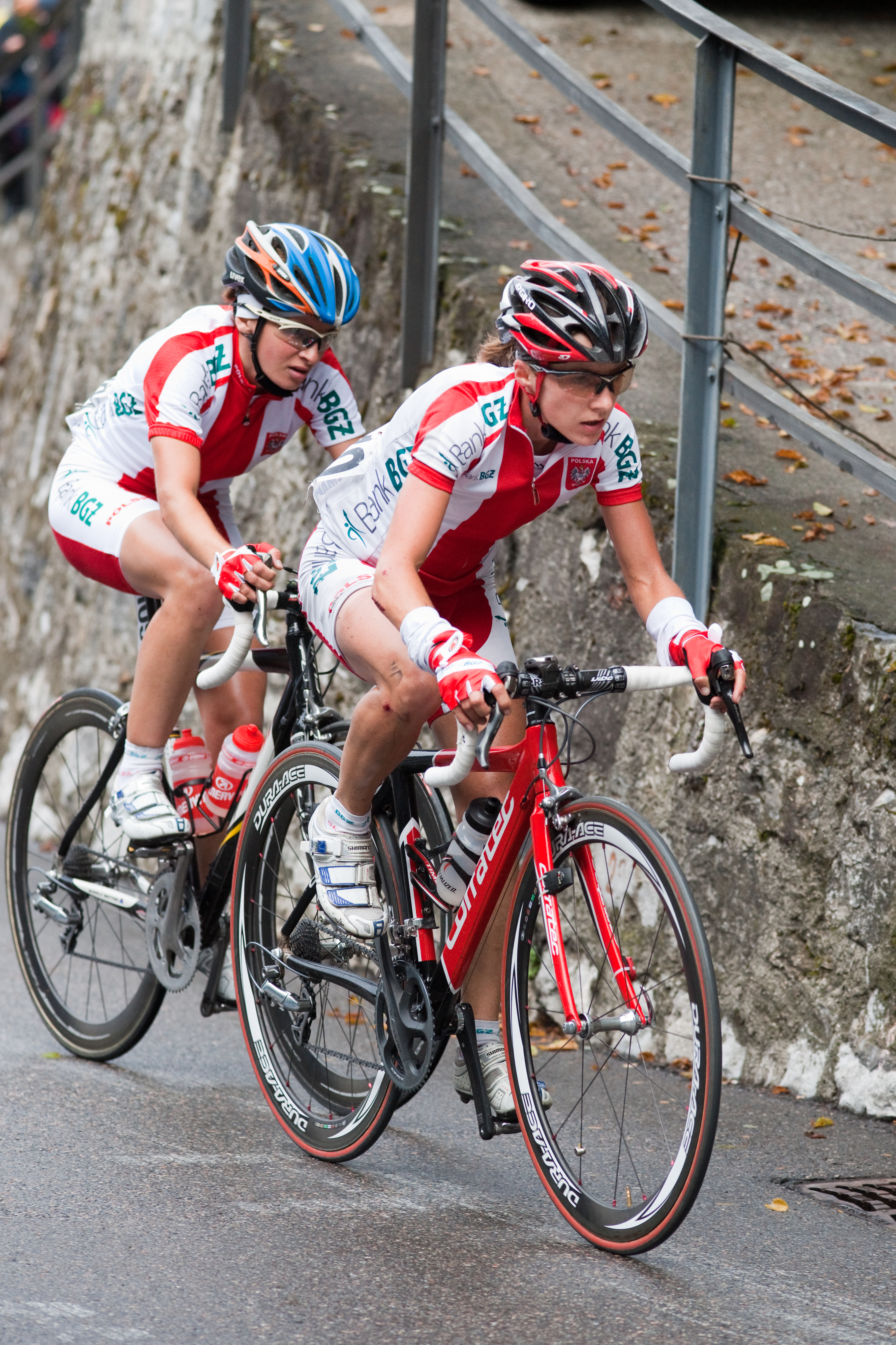 Malgorzta Jasinska (left) and Sylwia Kapusta (right) during the 2009 UCI Road World Championships in Mendrisio, Switzerland.